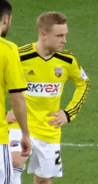 Brentford FC footballer Alex Pritchard at Cardiff City Stadium, December 2014. Other information Cropped from original. Creative Commons Attribution-ShareAlike 2.0 Generic (CC BY-SA 2.0)